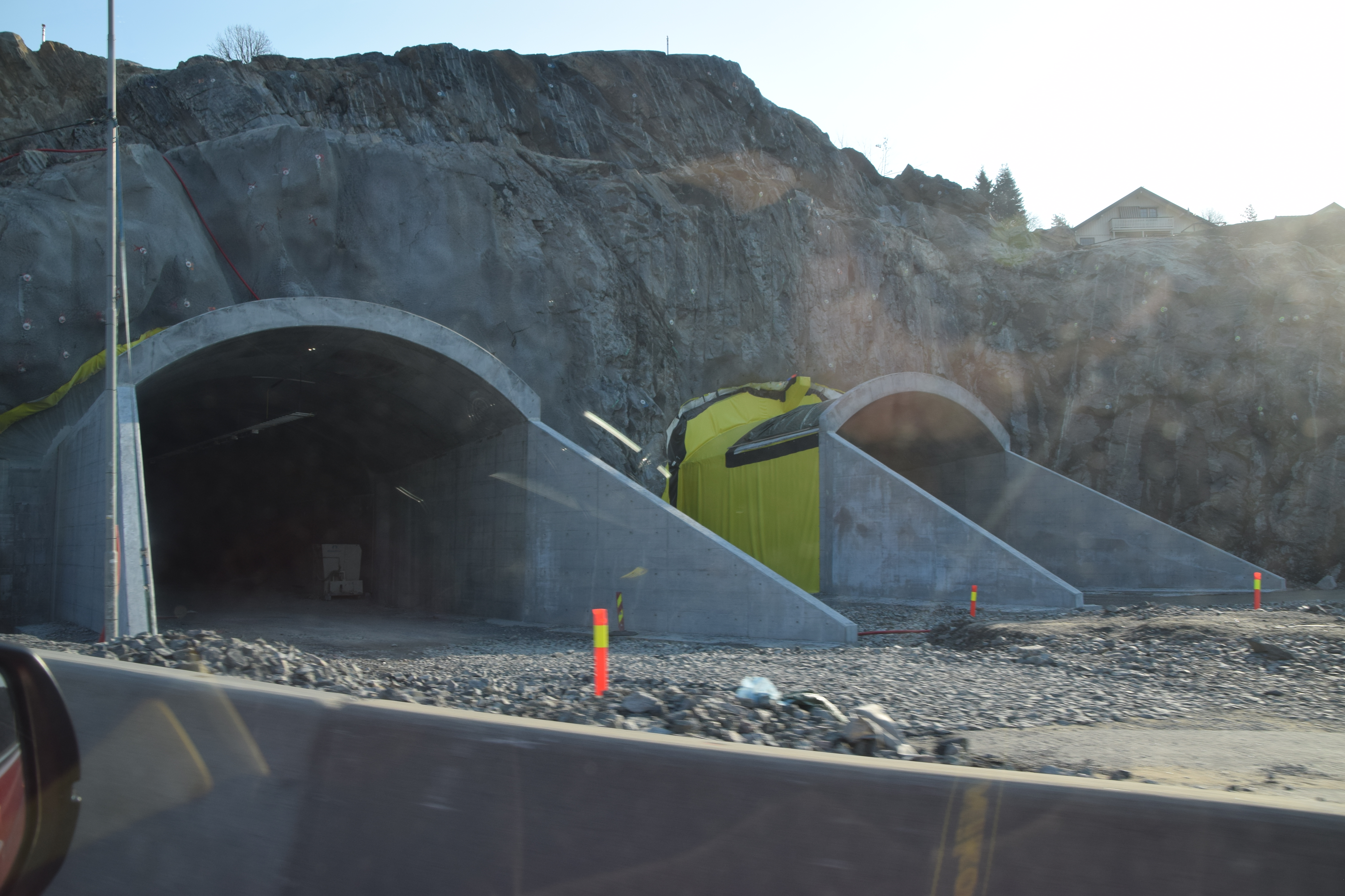 The Torsbuåsen tunnel under construction.